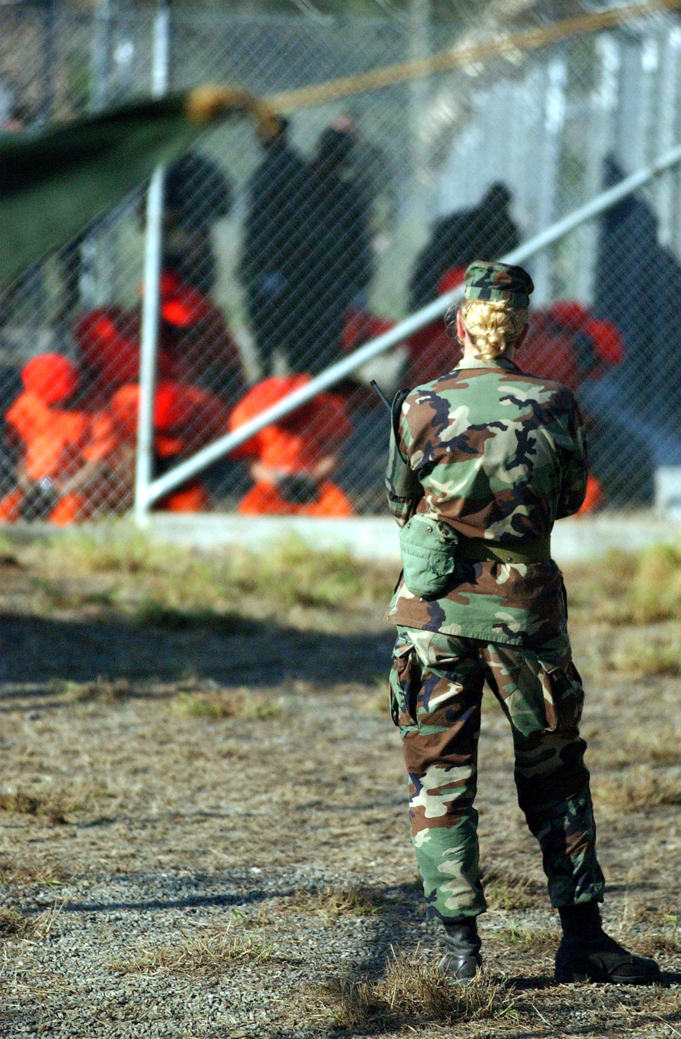 Female_GI_observes_first_20_captives_being_processed_on_January_11,_2002.jpg